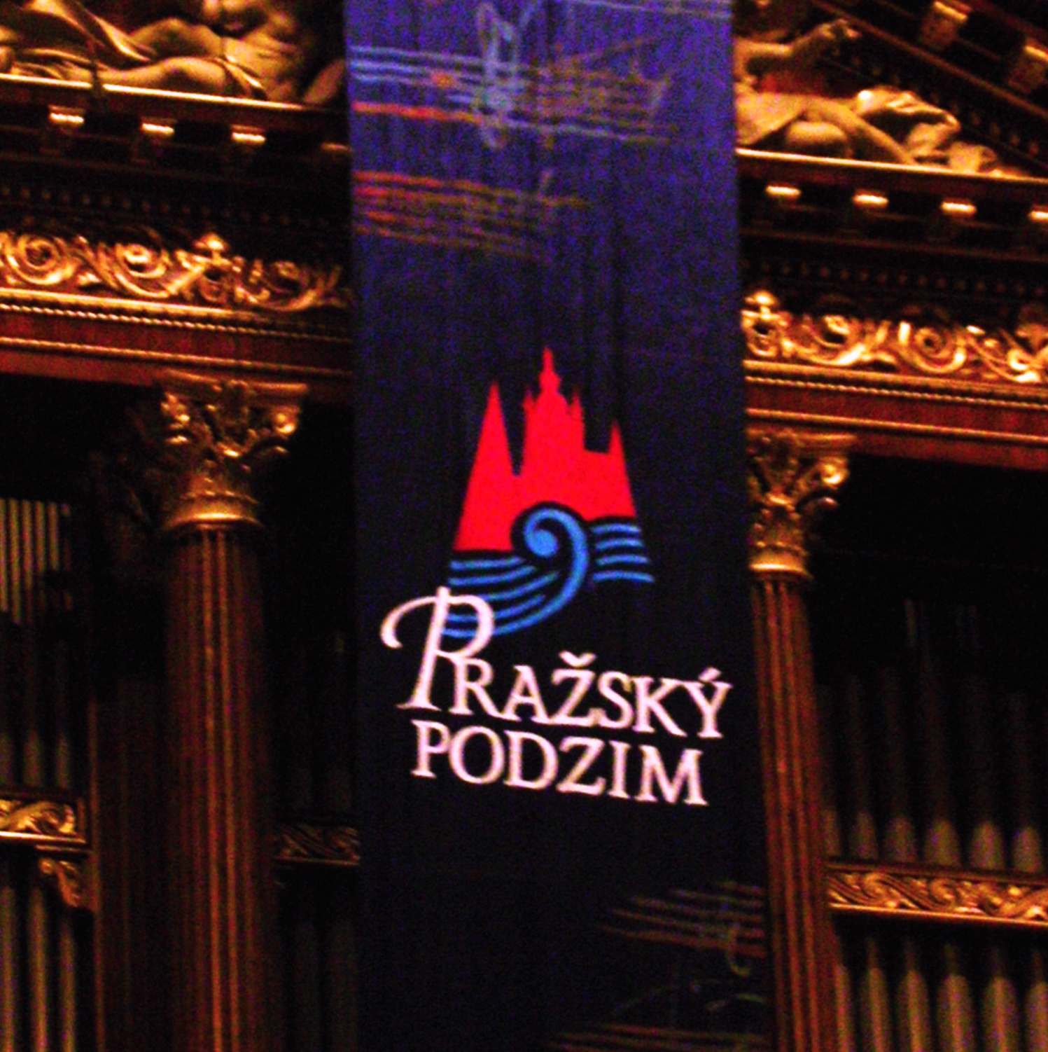 Prague Autumn International Music Festival - Logo